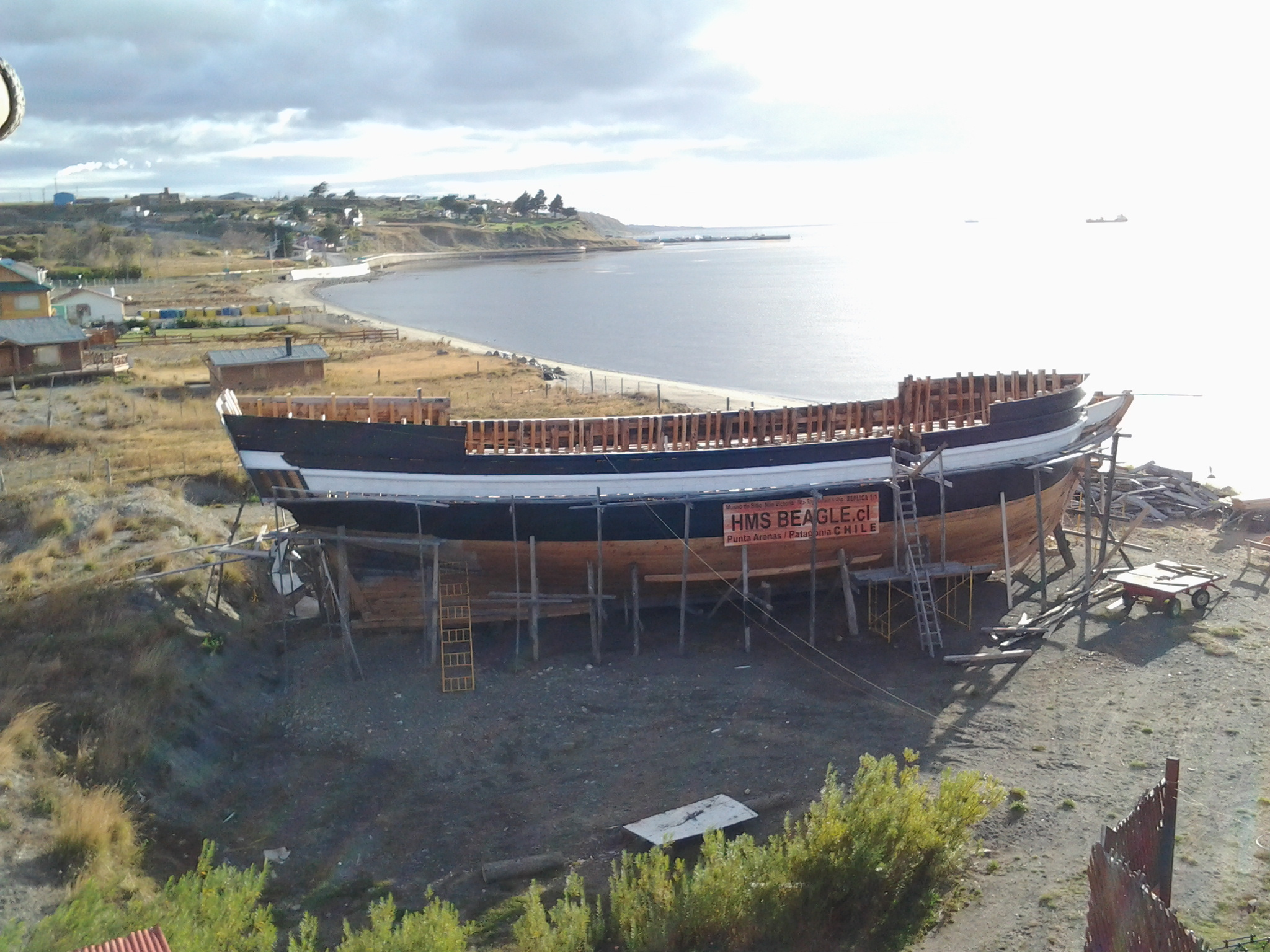 View of complete and painted hull of the HMS Beagle 1:1 replica in the Nao Victoria Museum in Punta Arenas - Chile